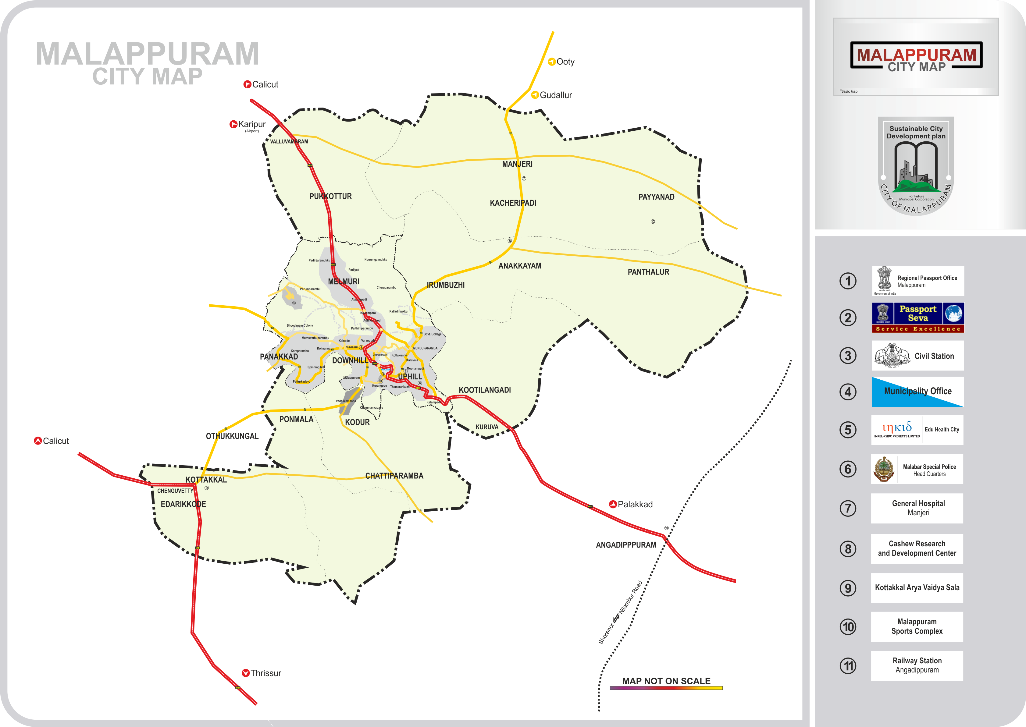 Greater Malappuram City Map depicts future Municipal Corporation expansion as well as Areas that comes under Malappuram City Tag.